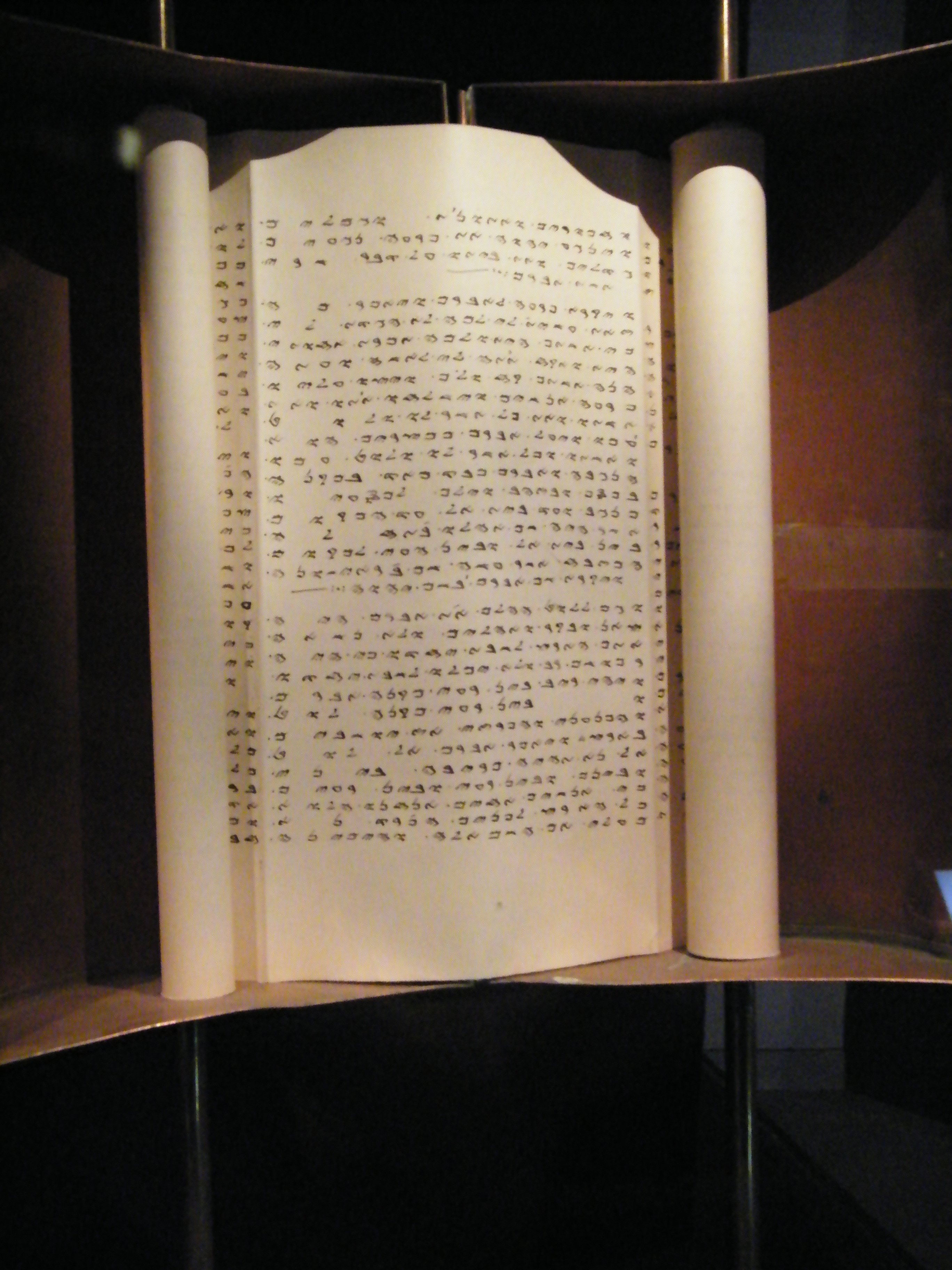 Samaritan Torah with Opening Chapters of Genesis Nablus, Israel, 1911 (date of inscription) Copper: hand-worked; ink on paper Height: 20 1/2 in. (52 cm) The Jewish Museum, New York The Jewish Museum, JM 22-51 Wikipedia Loves Art at the Jewish Museum (New York City) This photo of item # JM-22-51 at the Jewish Museum (New York City) was contributed under the team name "The_Grotto" as part of the Wikipedia Loves Art project in February 2009. Jewish Museum (New York City) The original photograph on Flickr was taken by cjn212—please add a comment to the original Flickr page whenever a use has been made on Wikipedia or another project. Project galleries on Flickr: this institution, this team